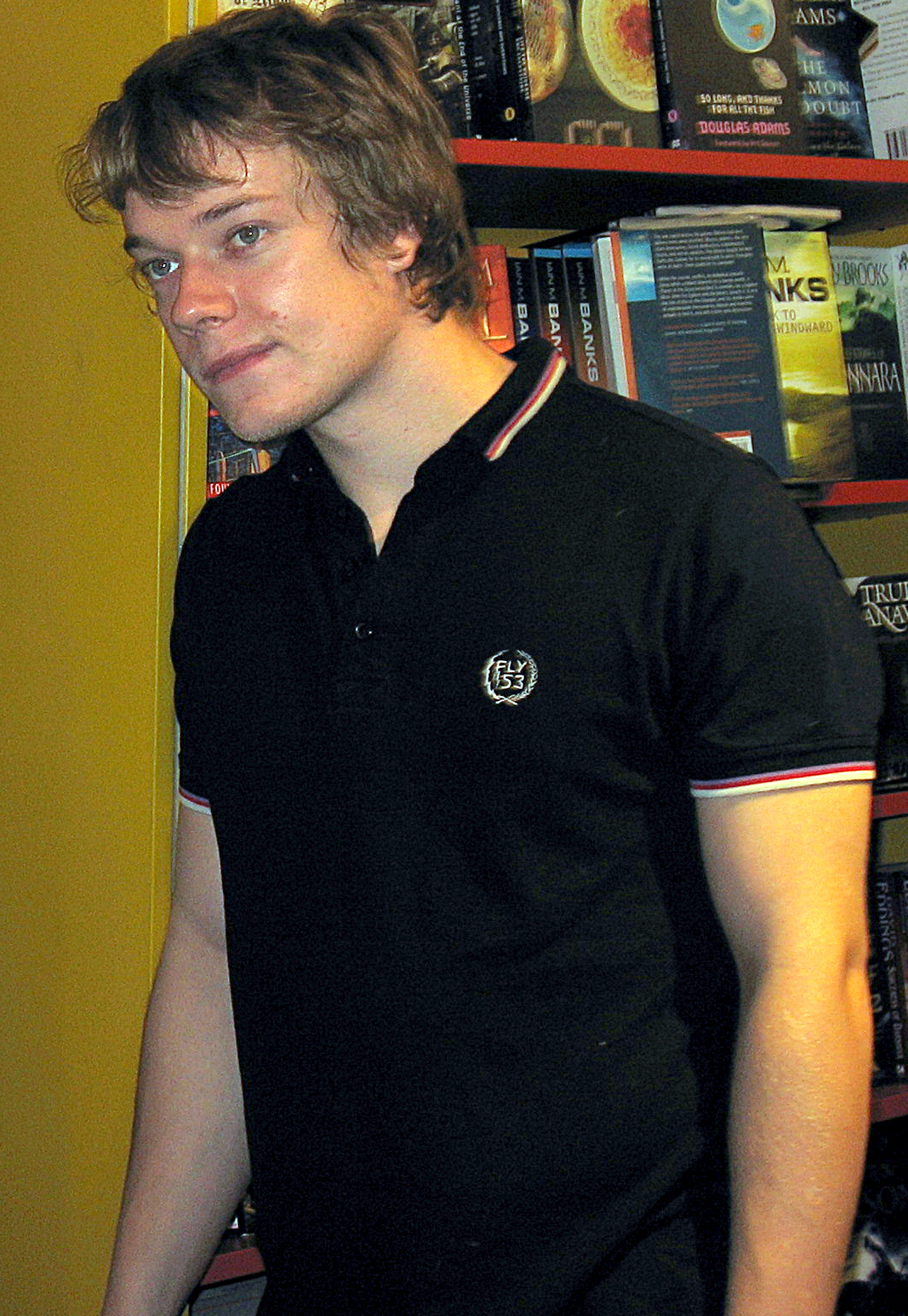 Actor Alfie Allen at GRRM Easons Book signing Belfast 3rd Nov 2009, which was followed by an evening event called Moot 1 organised by the Brotherhood Without Banners (ASoIAF fandom)